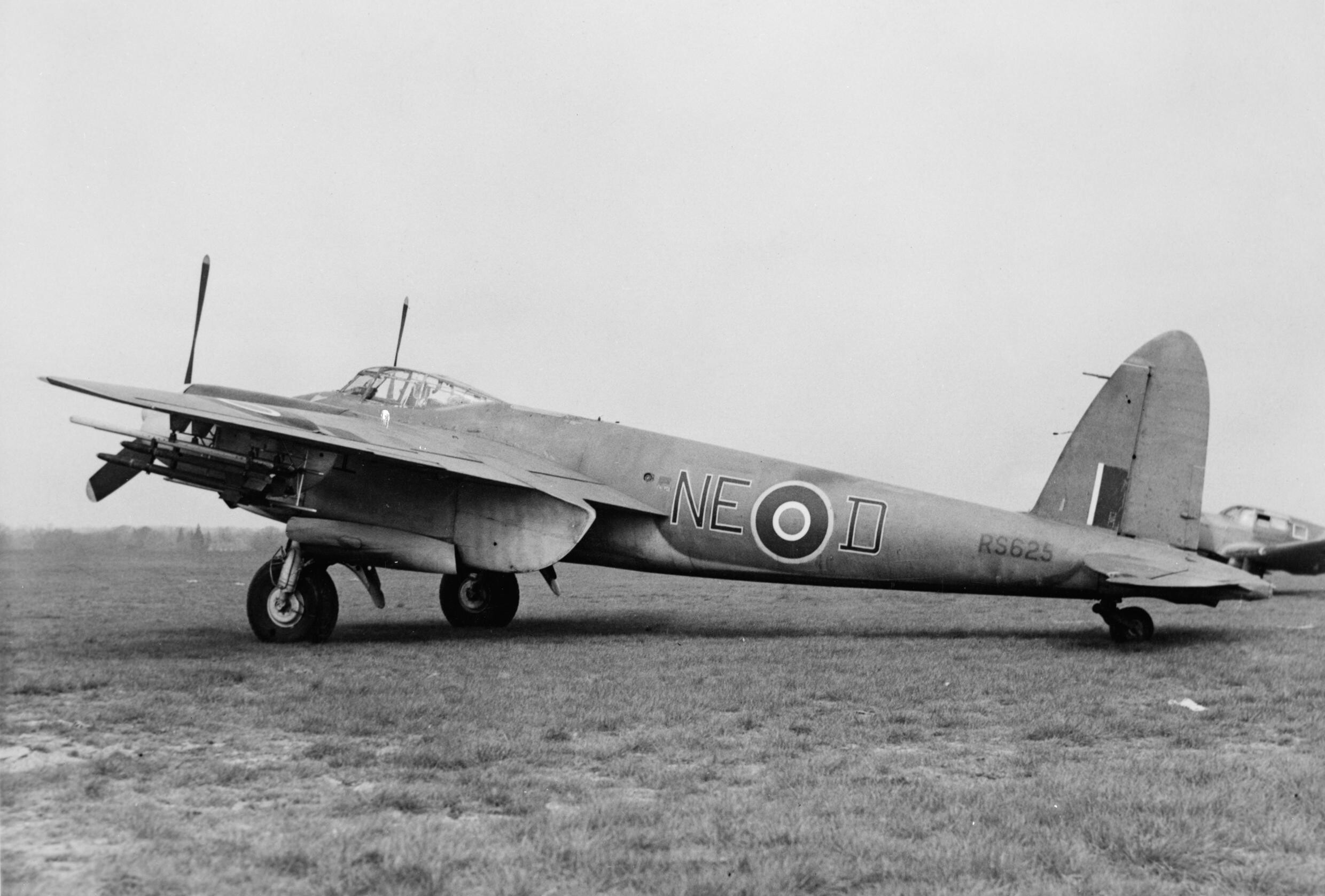 Aircraft of the Royal Air Force, 1939-1945- De Havilland Dh.98 Mosquito. Mosquito FB Mark VI, RS625 ‘NE-D’, of No. 143 Squadron RAF, on the ground at Banff, Aberdeenshire.